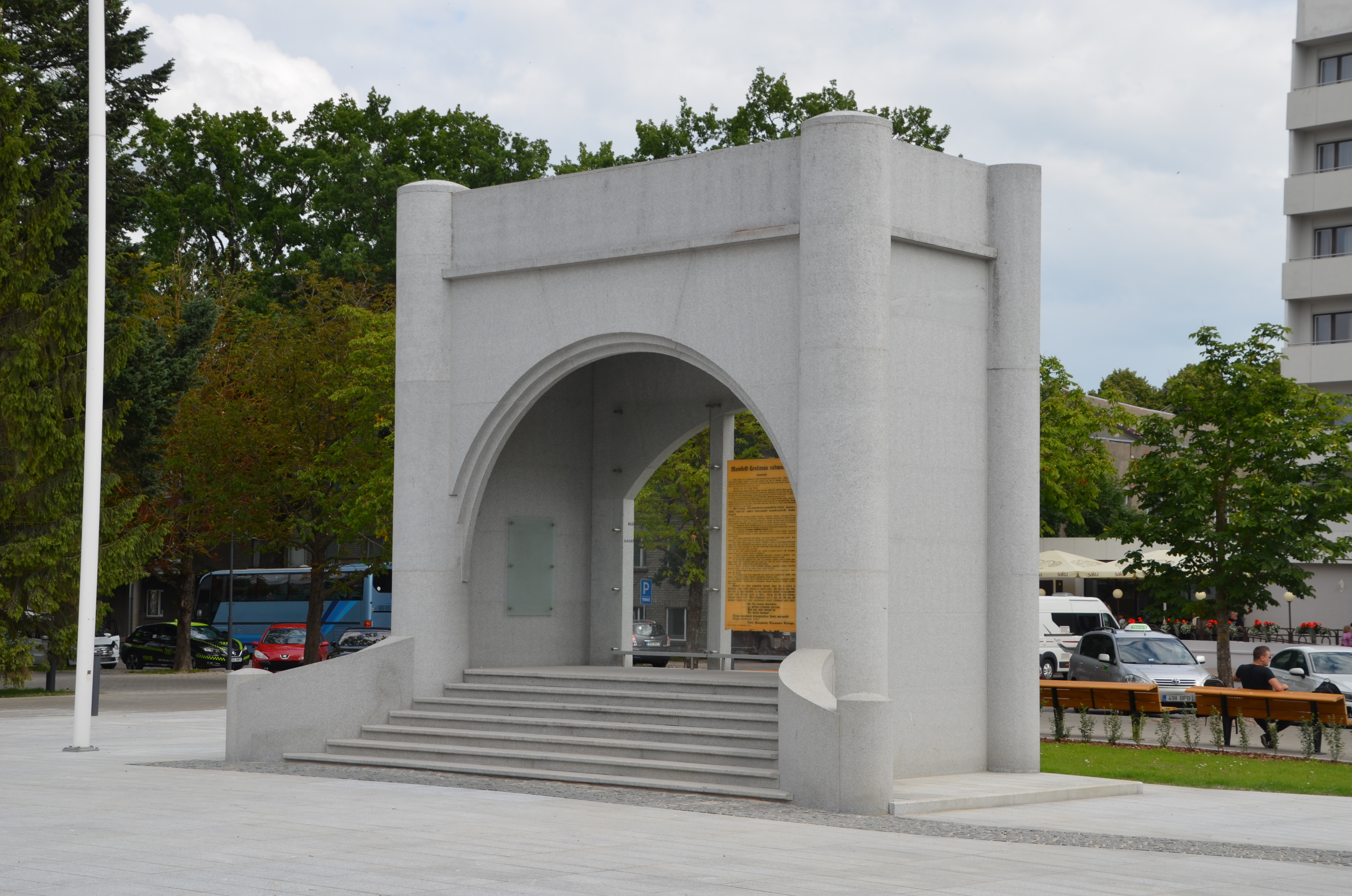 Monument to declaring the independence of the Republic of Estonia